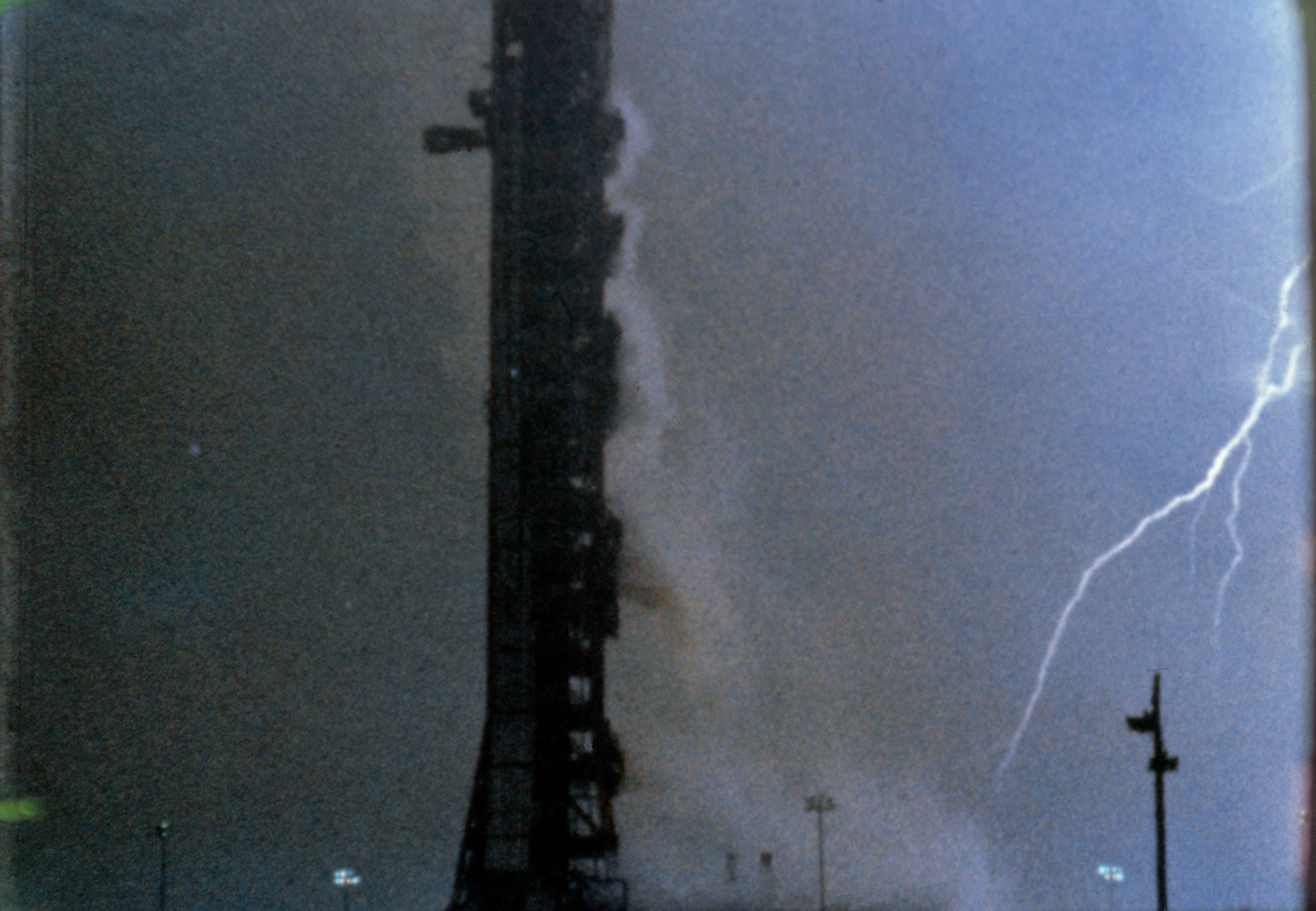 Shortly after liftoff, lightning struck both the Saturn V and the launch tower.